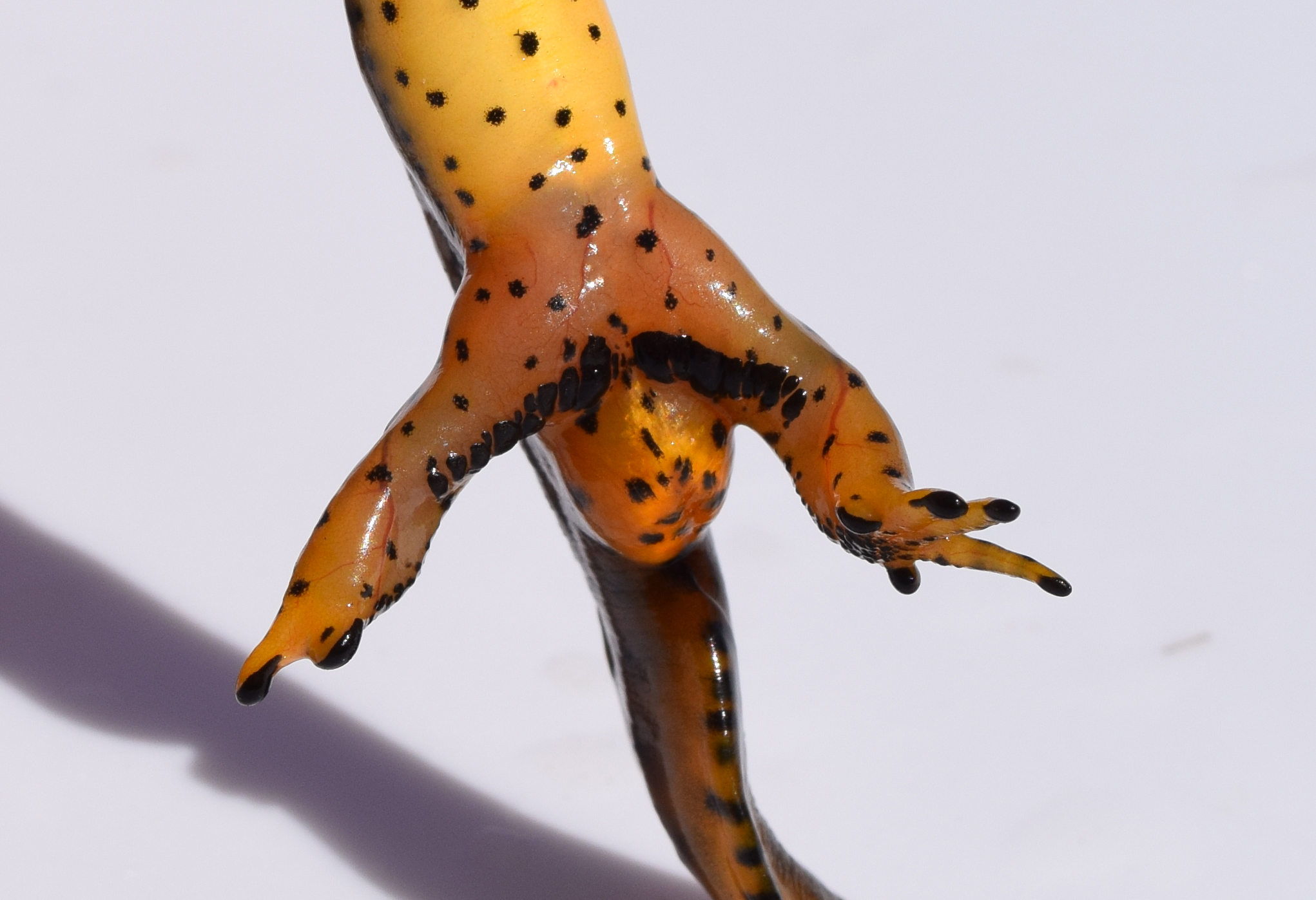 An adult male central newt (Notophthalmus viridescens louisianensis) in reproductive condition with swollen cloaca and large hind legs at the University of Mississippi Field Station